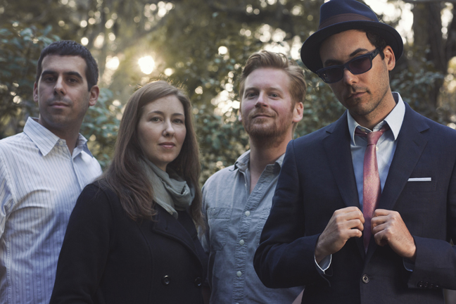 Headshot of the band Morningbell from 2013